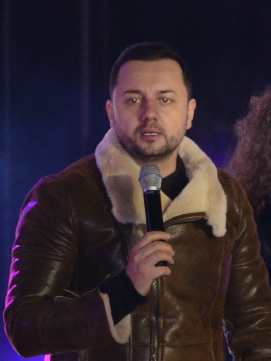 Romanian presenter Cătălin Măruță